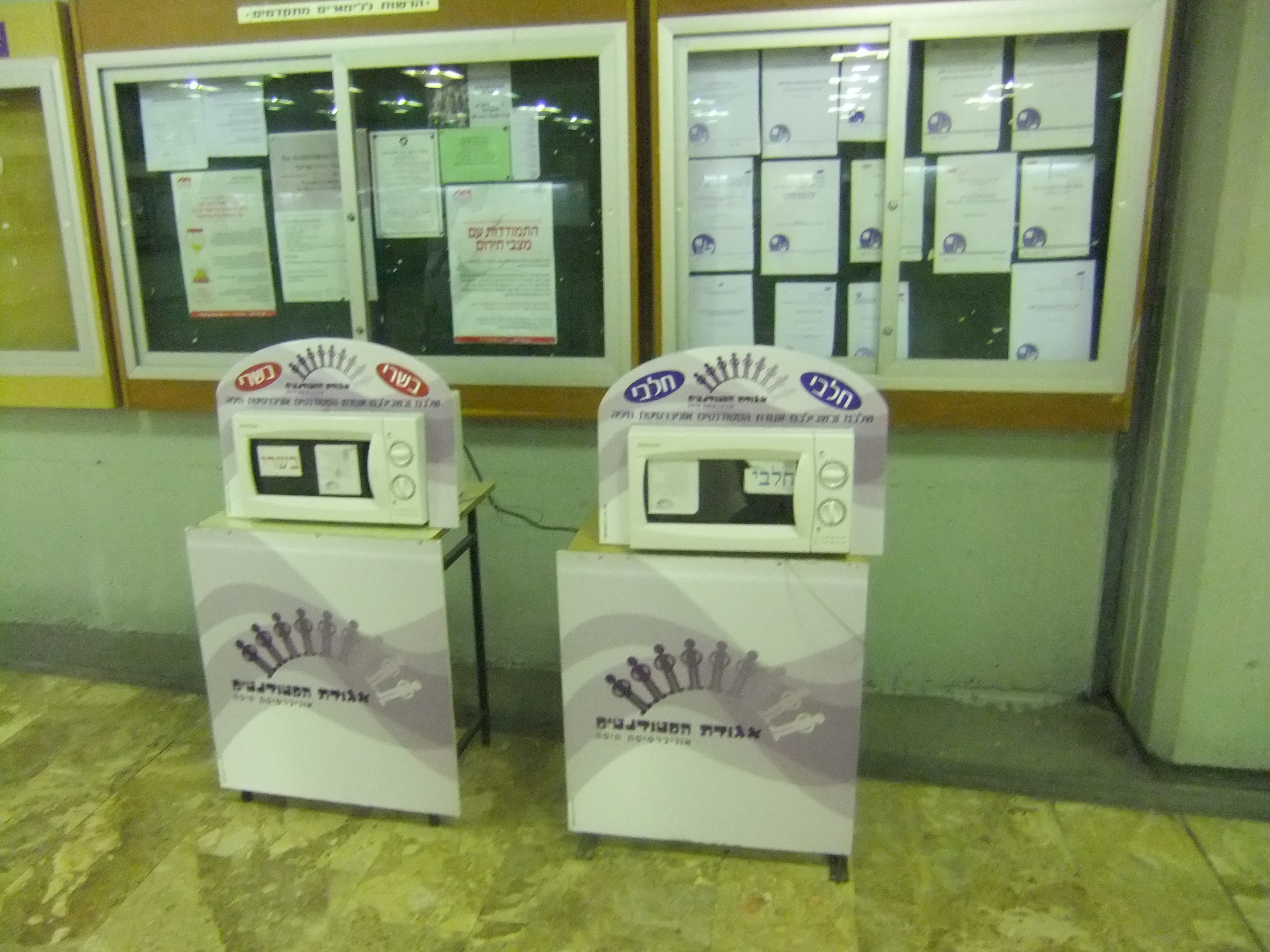 Two microwave ovens for students presented by student body in University of Haifa